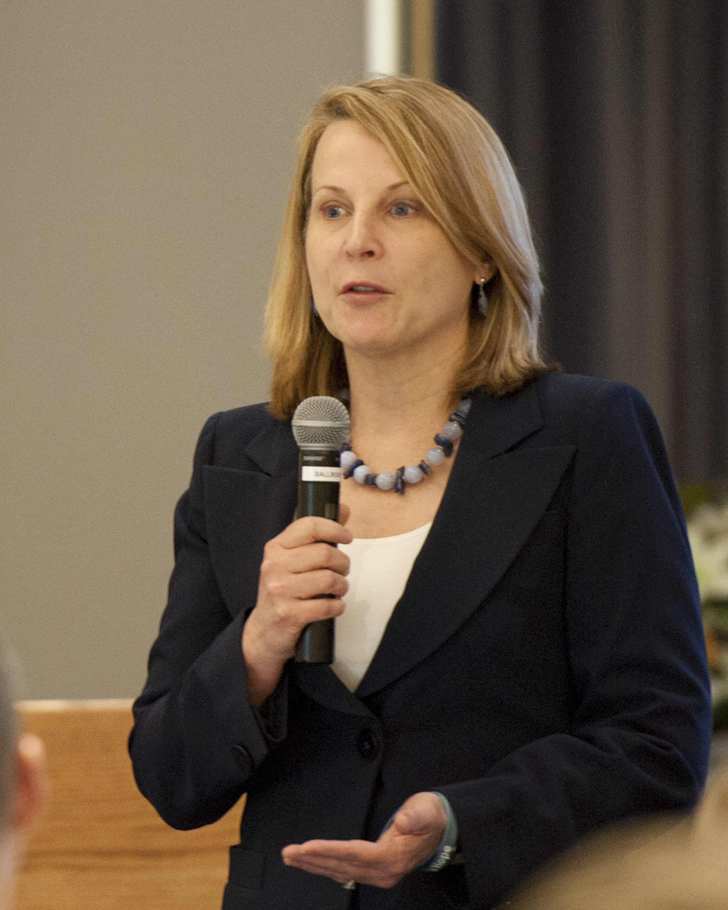 WASHINGTON - Alice C. Hill, senior counselor to the Secretary of the Department of Homeland Security, speaks at the Senior Executive Leadership meeting in the Officer's Club at Bolling Air Force Base here, May 8, 2012. U.S. Coast Guard photo by Petty Officer 2nd Class Timothy Tamargo